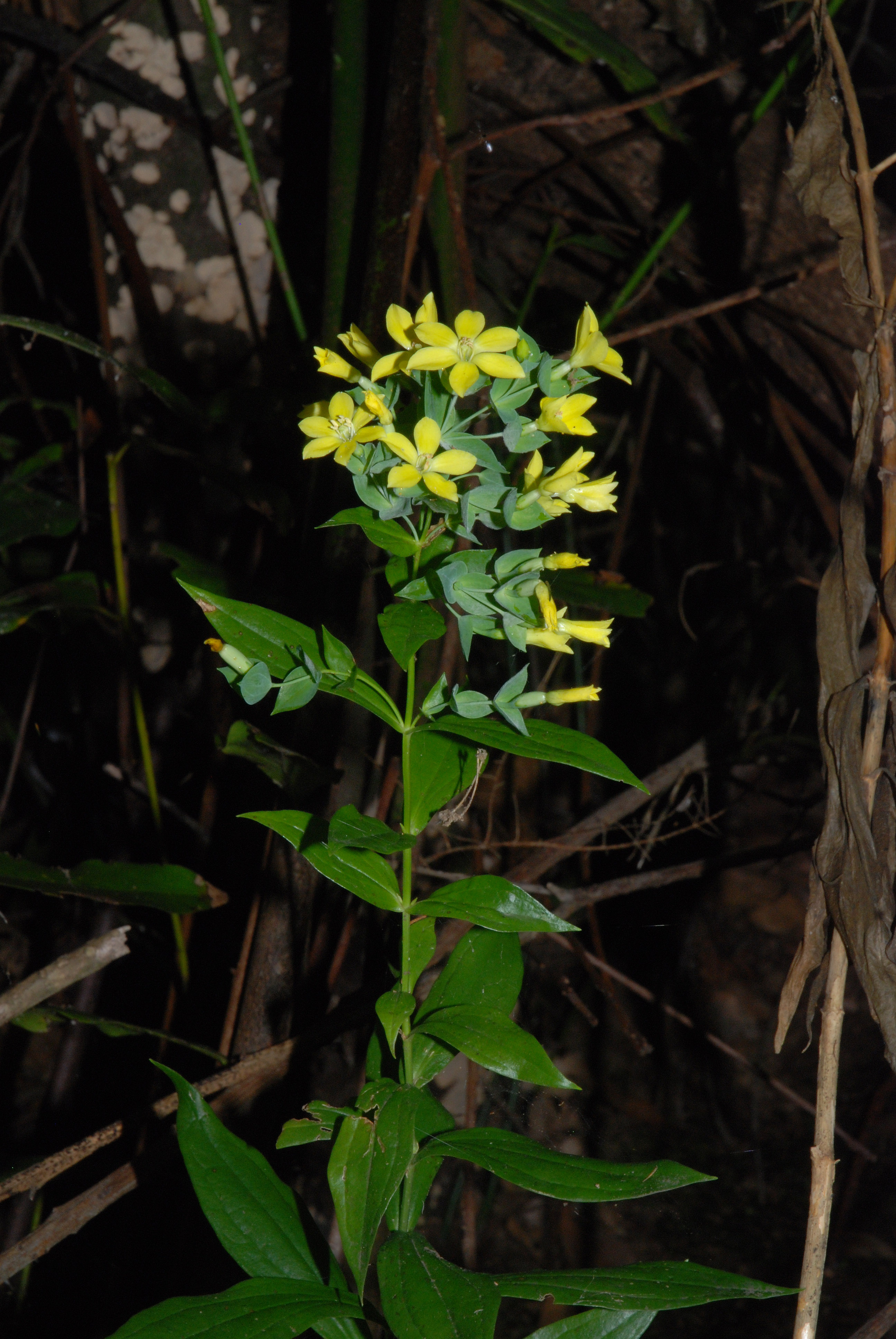 Ixanthus viscosus, Cubo de la Galga, La Palma, Spain